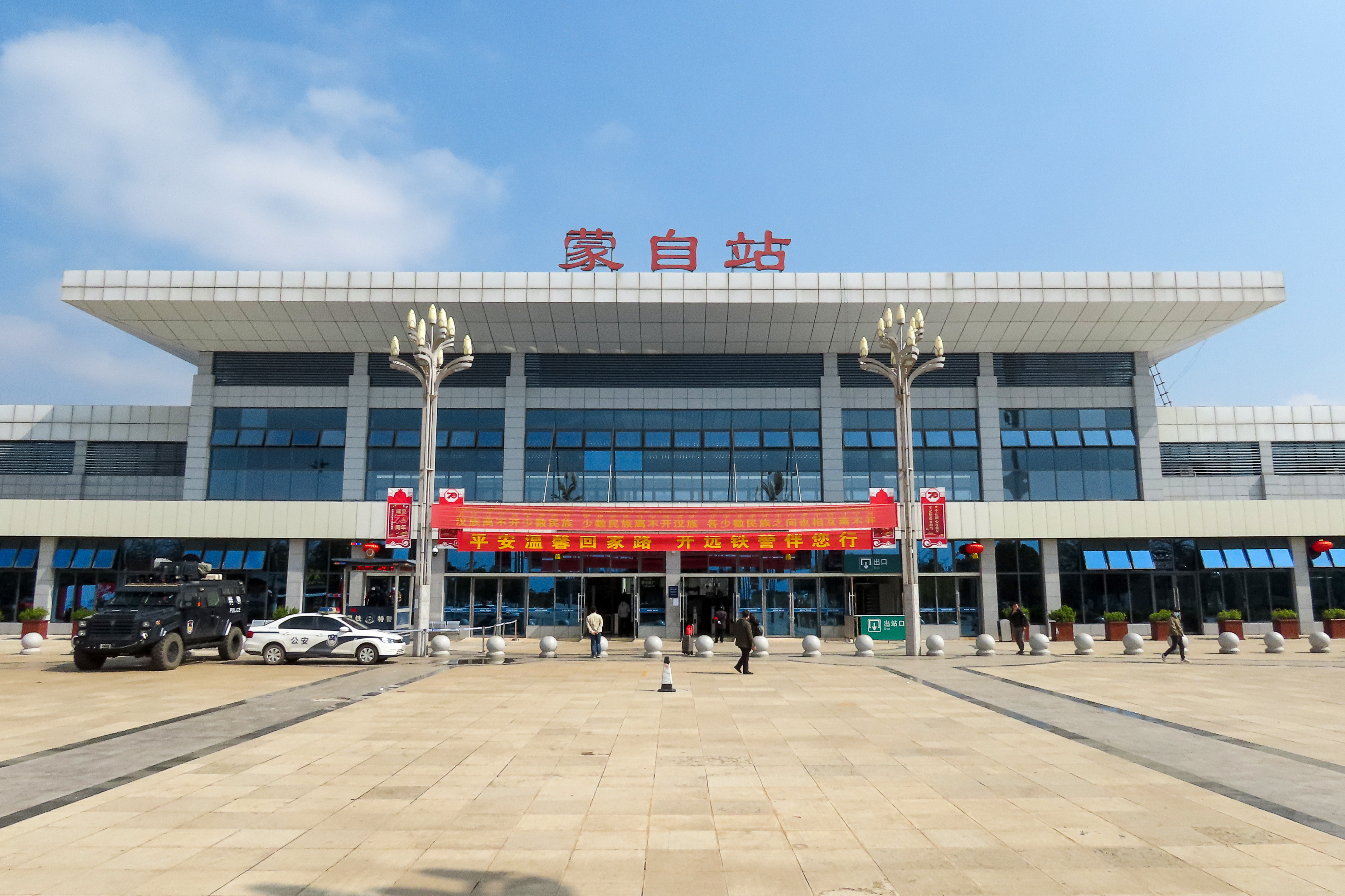 Welcome to the "Crossing-the-bridge Rice Noodles" station!